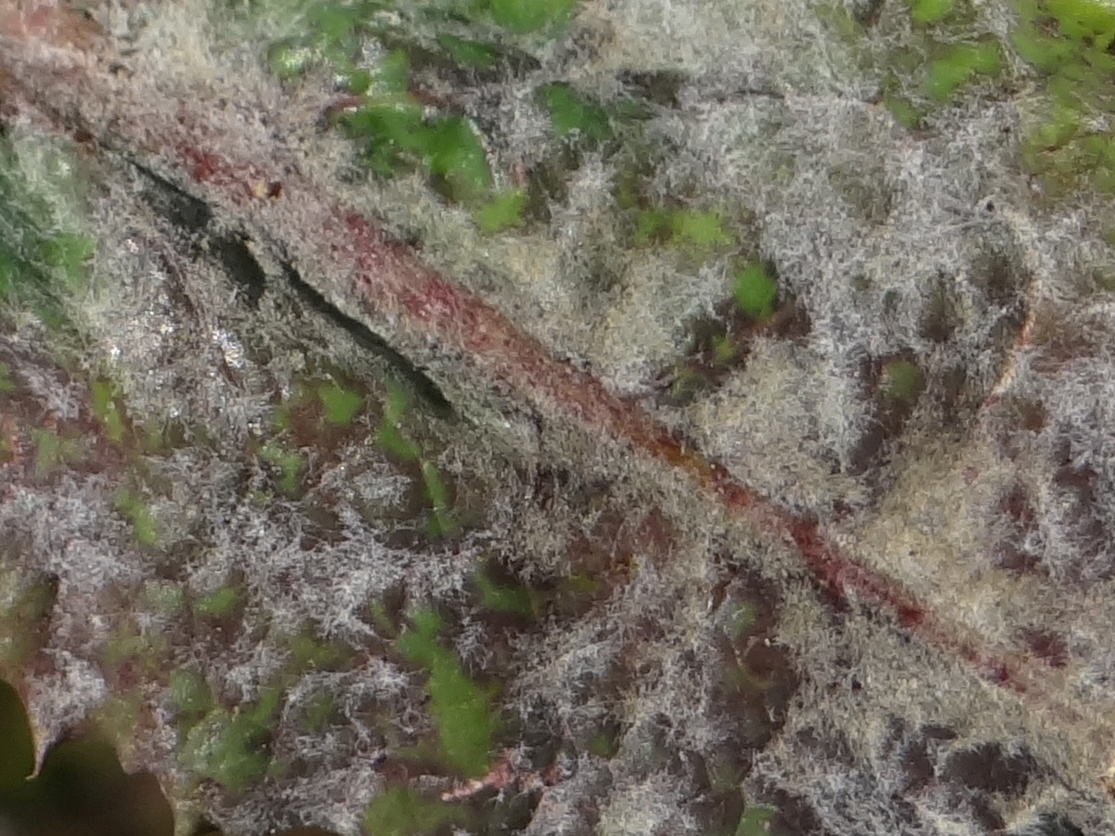 Golovinomyces cichoracearum on Sonchus oleraceum Location: Poland, Proszówki